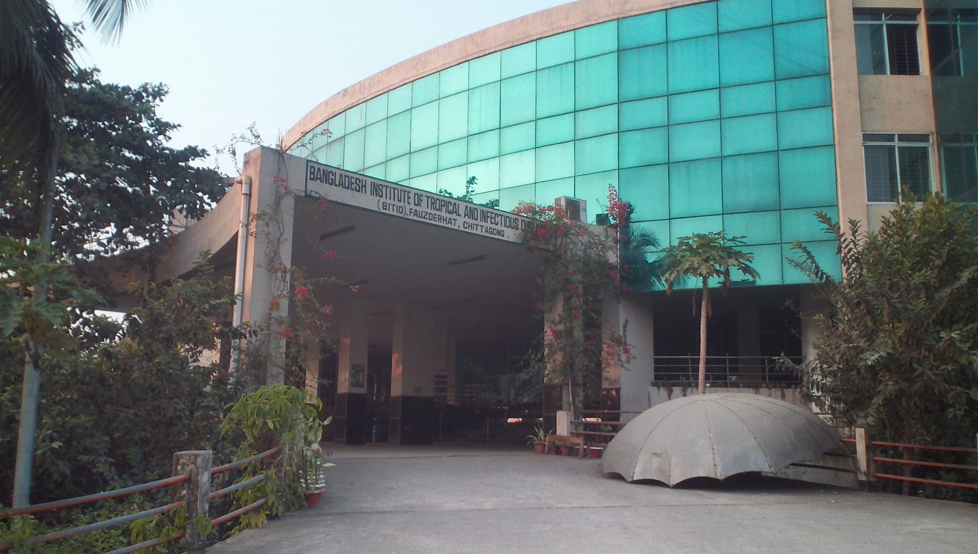 This is an image of BITID. This image is showing the entrance of BITID.